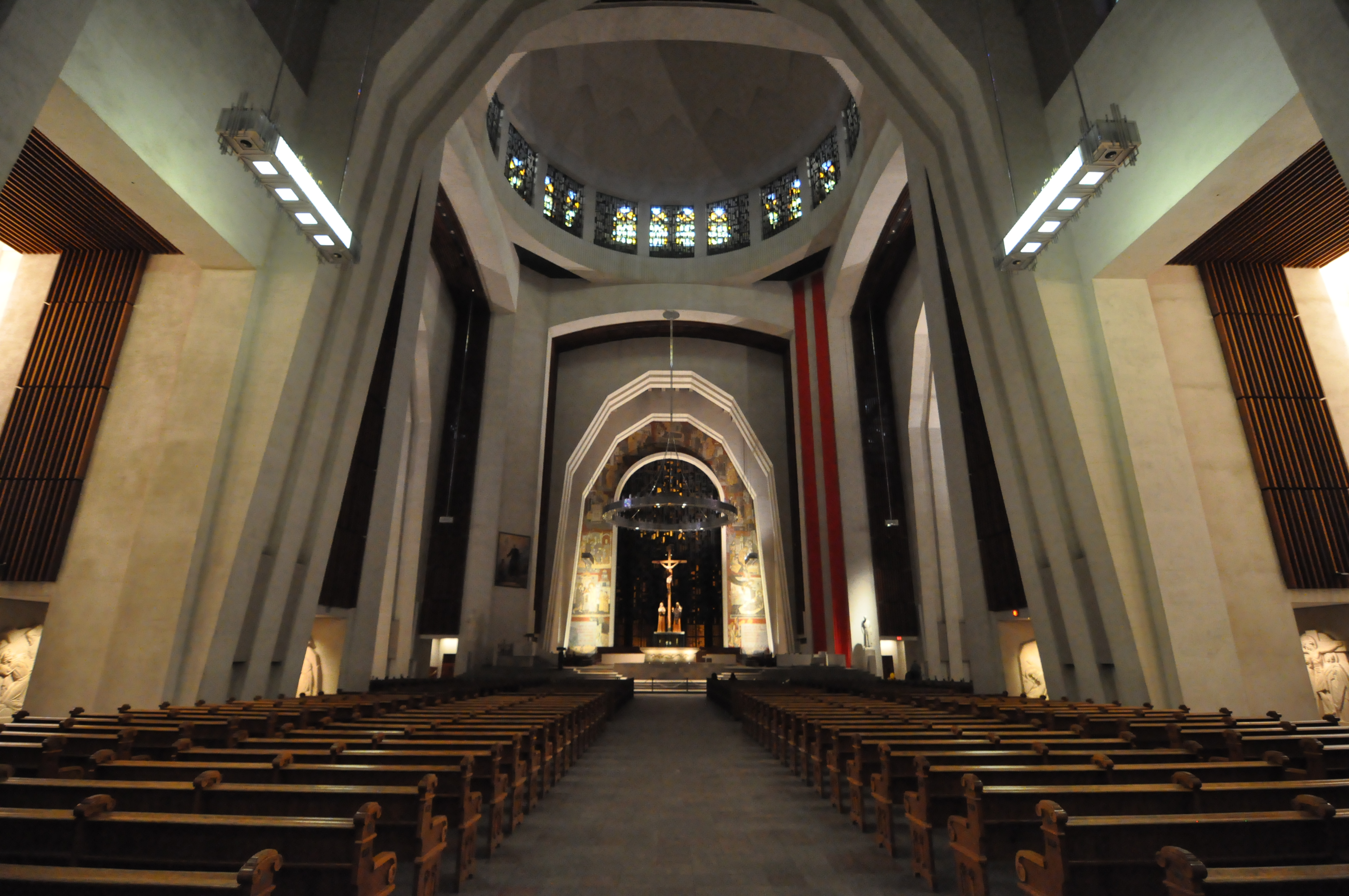 Saint Joseph's Oratory Basilica interior Montreal winter 2010